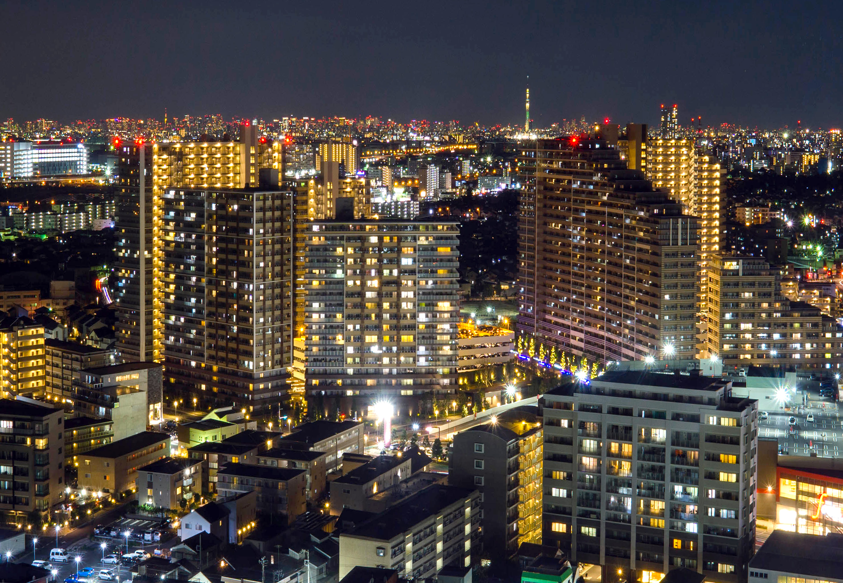 Narashino cityscape at night. Chiba, Japan.